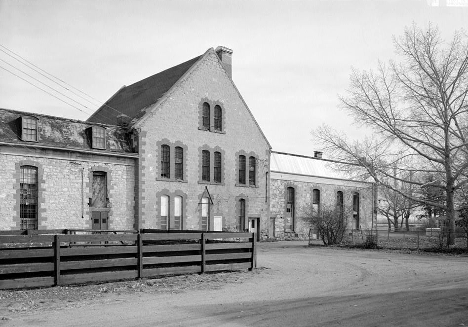 Main facade of the Wyoming Territorial Penitentiary, Laramie, Wyoming, USA